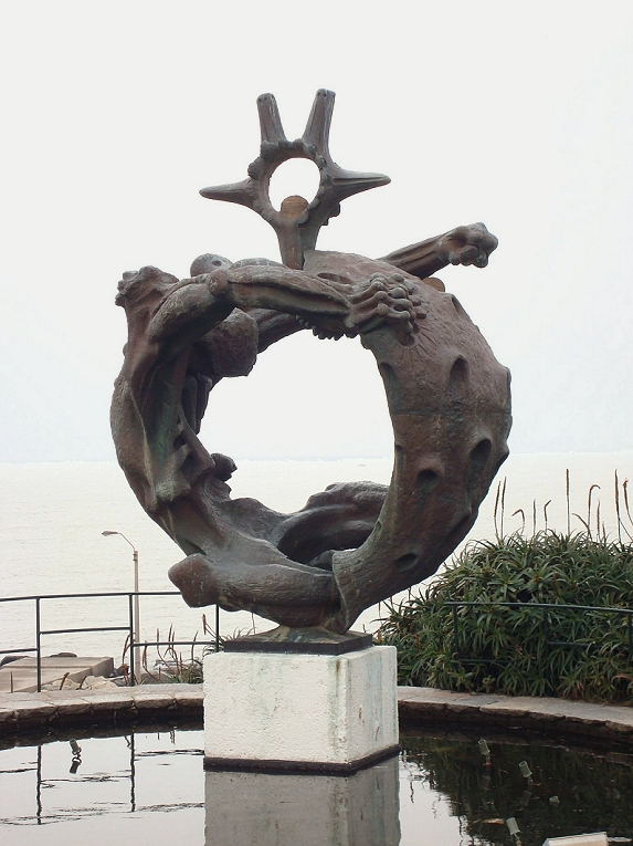 Monumento a los Caídos en el Mar, Plaza de la Armada, Punta Gorda, Montevideo, Uruguay.